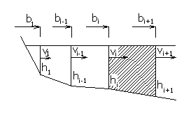 computation of discharge - mean-section method